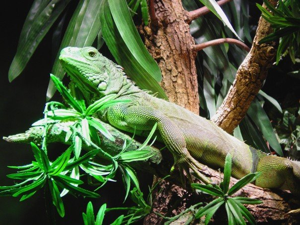 Green Iguana at the Vilas Park Zoo, Madison, Wisconsin.